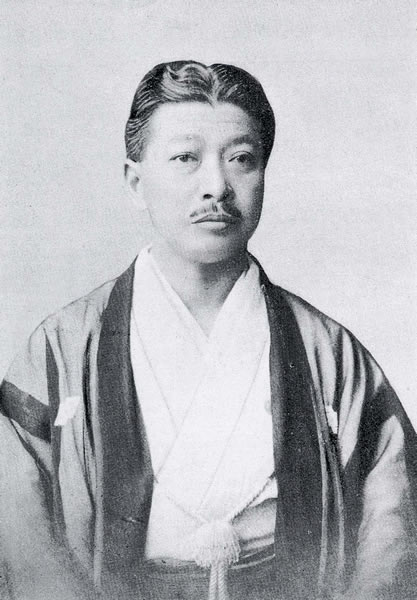 Architect Kikutarō Shimoda in 1928